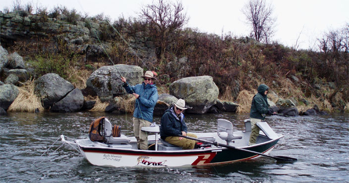 Anglers Fly Fishing from a Drift Boat